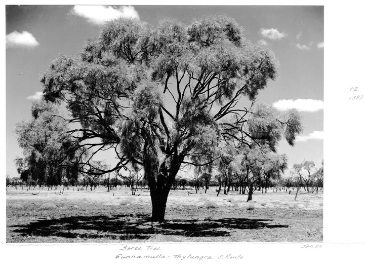 Boree tree (Acacia tephrina), Cunnamulla to Thylungra S Route.